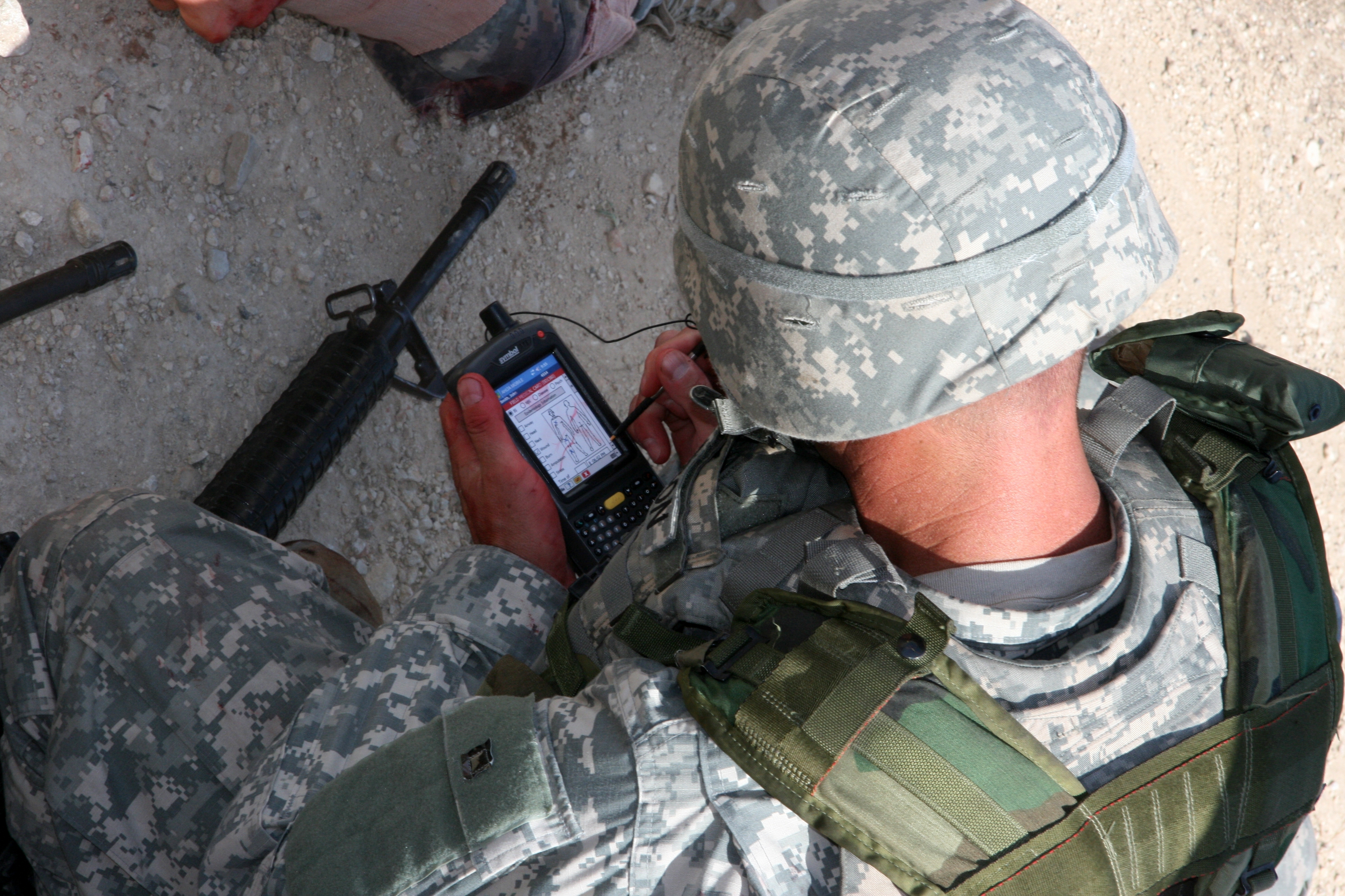 U.S Army solider in Army Combat Uniform